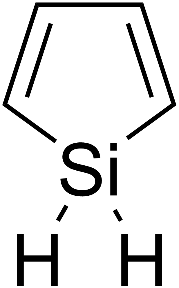 chemical structure of silole (Silacyclopentadiene)